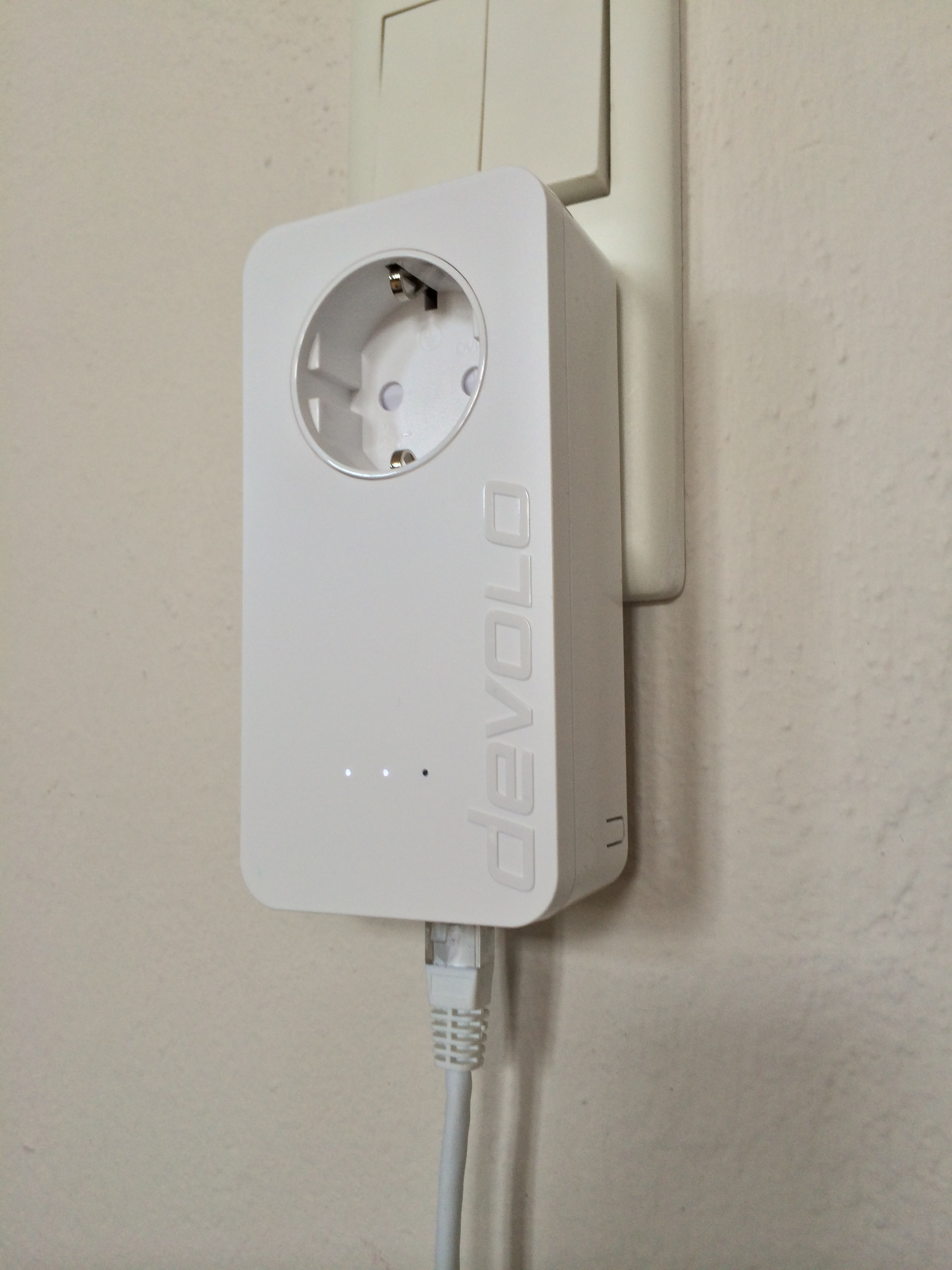 Devolo PowerLAN adaptor dLAN650.